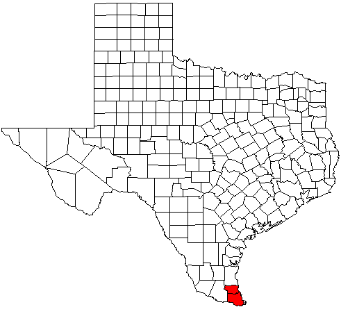 Map of Texas highlighting the Brownsville-Harlingen-Raymondville Combined Statistical Area; created with the GIMP. Made by User:Acntx.